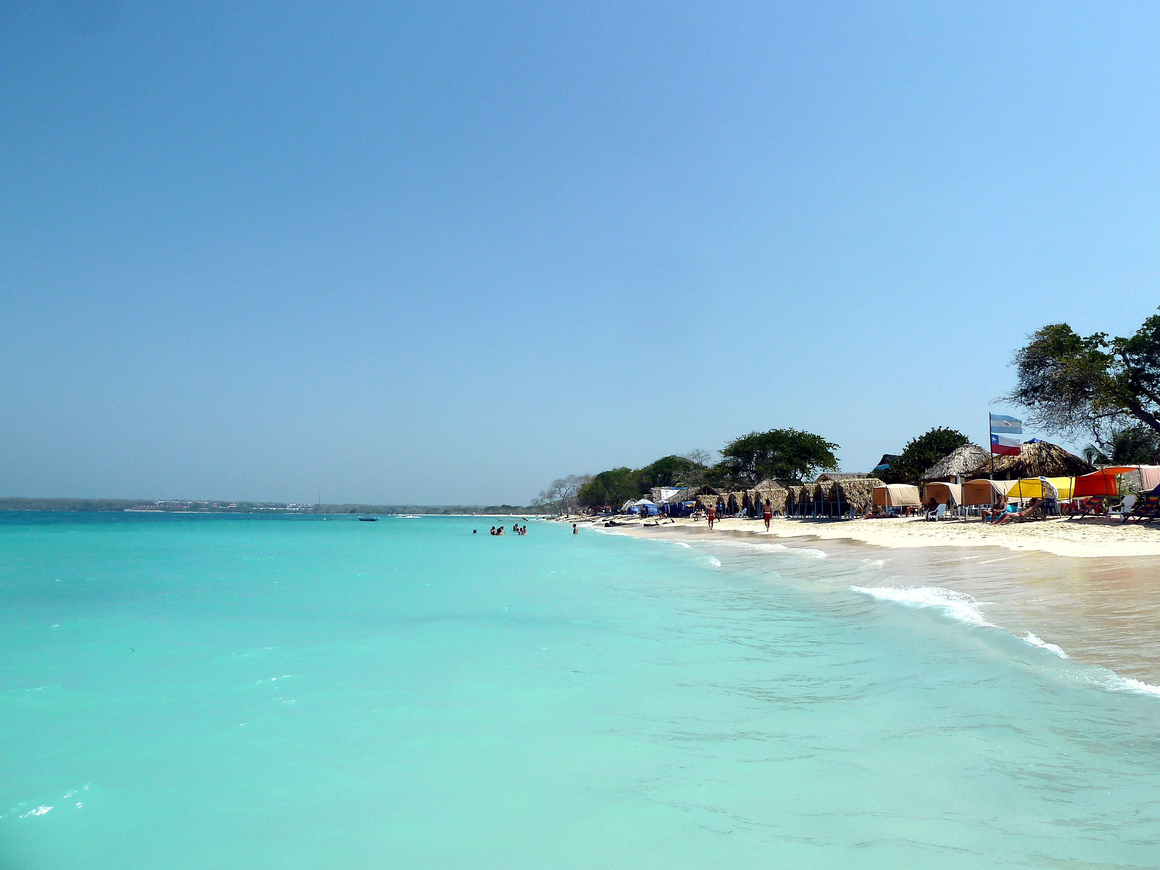 Playa Blanca on Isla Baru outside of Cartagena, Colombia.